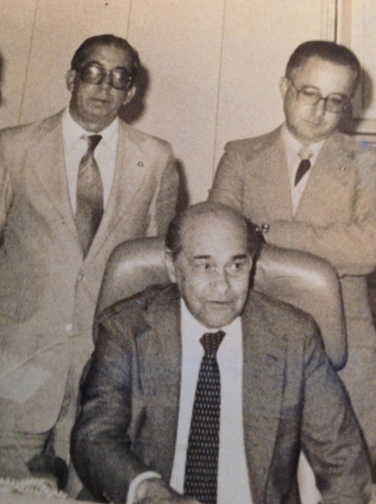 Deputado José Pereira da Silva ao lado do governador Tancredo Neves, juntamente com um dos vice líderes do governo